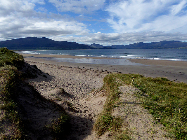 Brandon Bay